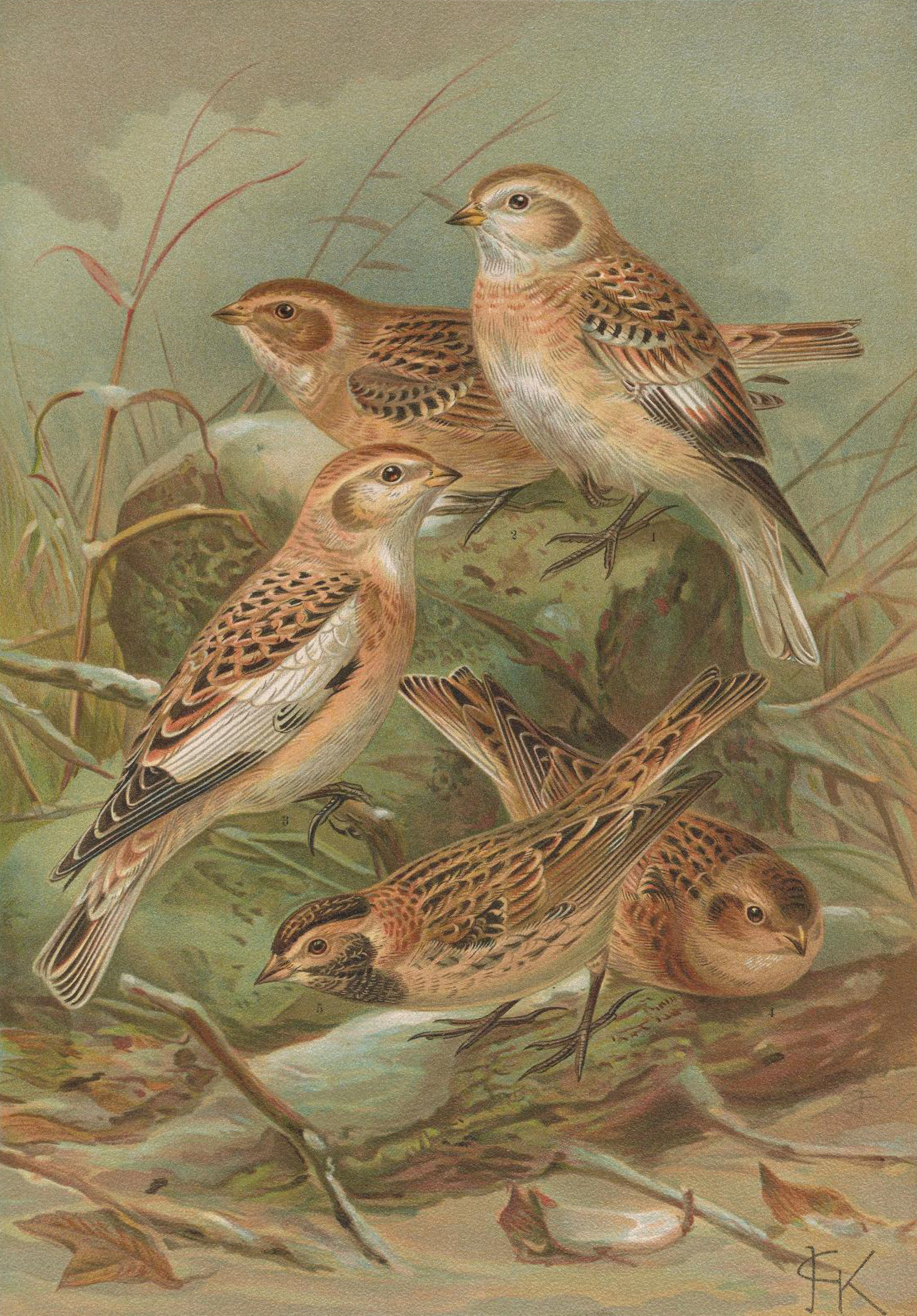 Illustration of Plectrophenax nivalis